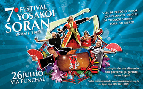 7 Festival Yosakoi Soran Brasil